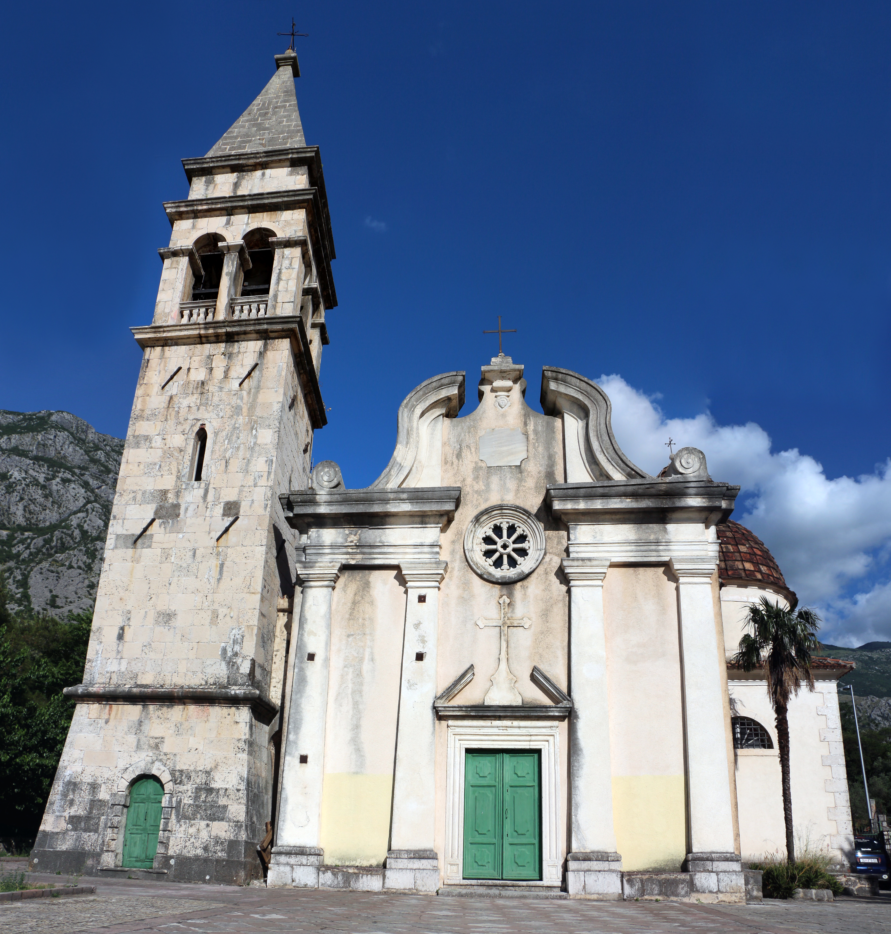 Saint Matthew (Dobrota)